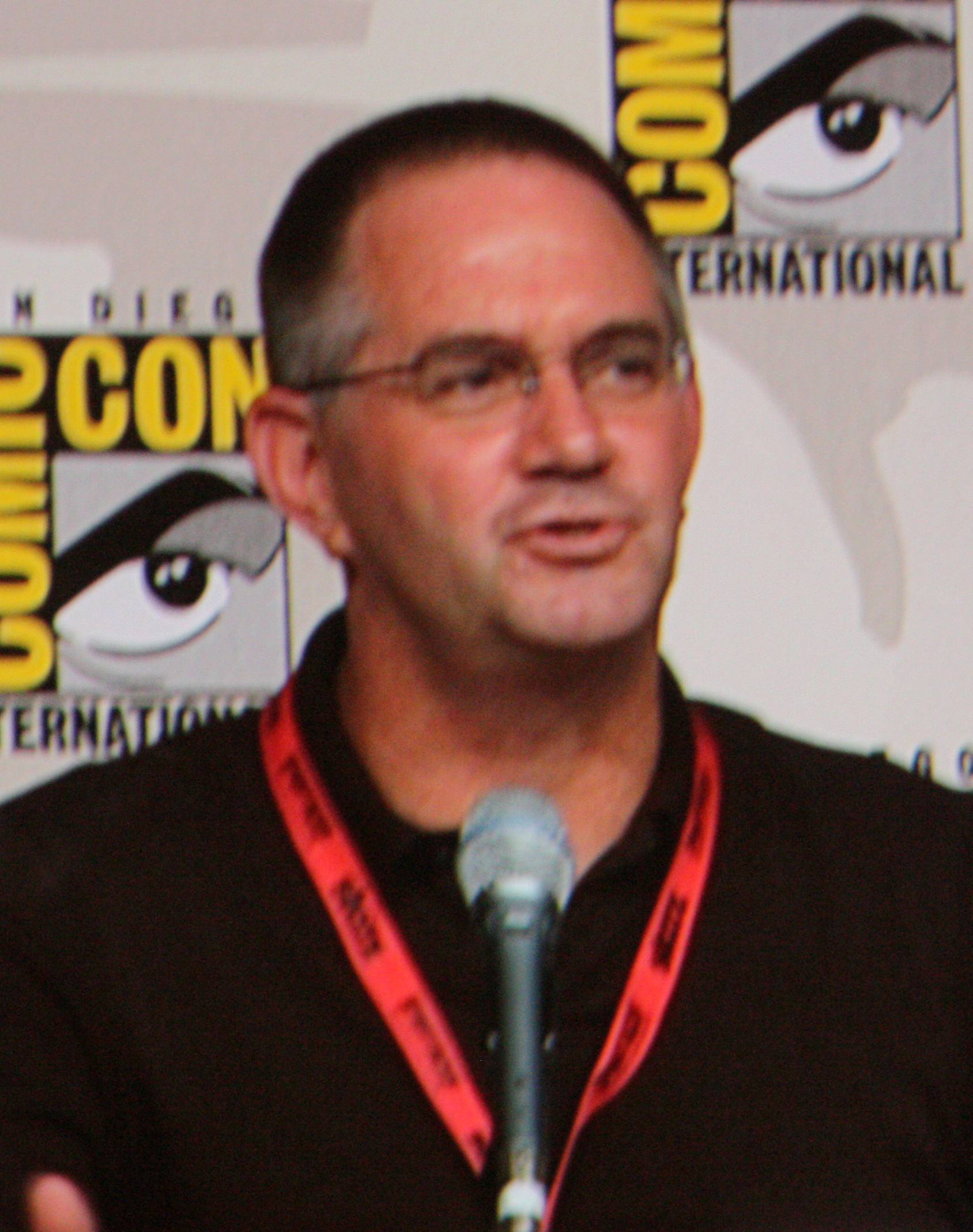 Hart Hanson at the 2009 Comic Con in San Diego.